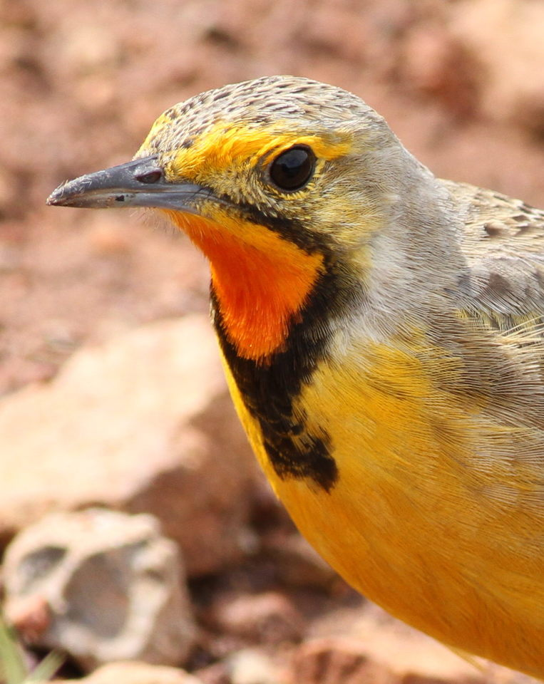 Cape Longclaw or Orange-throated Longclaw, Macronyx capensis at Rietvlei Nature Reserve, South Africa